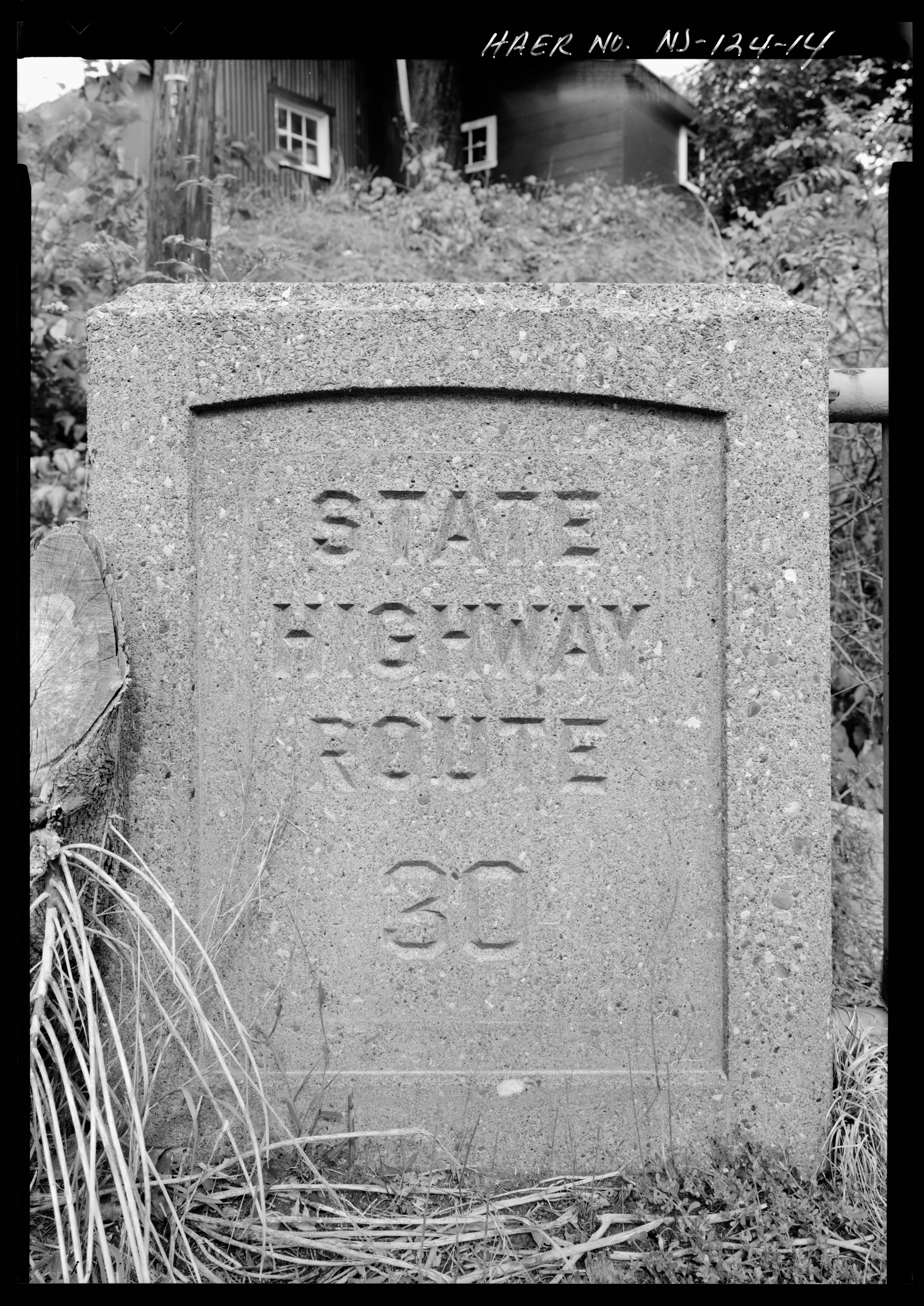 North pylon of the bridge along NJ Route 31 in Hampton, New Jersey denonating NJ State Highway Route 30, which ran along the highway before 1953.